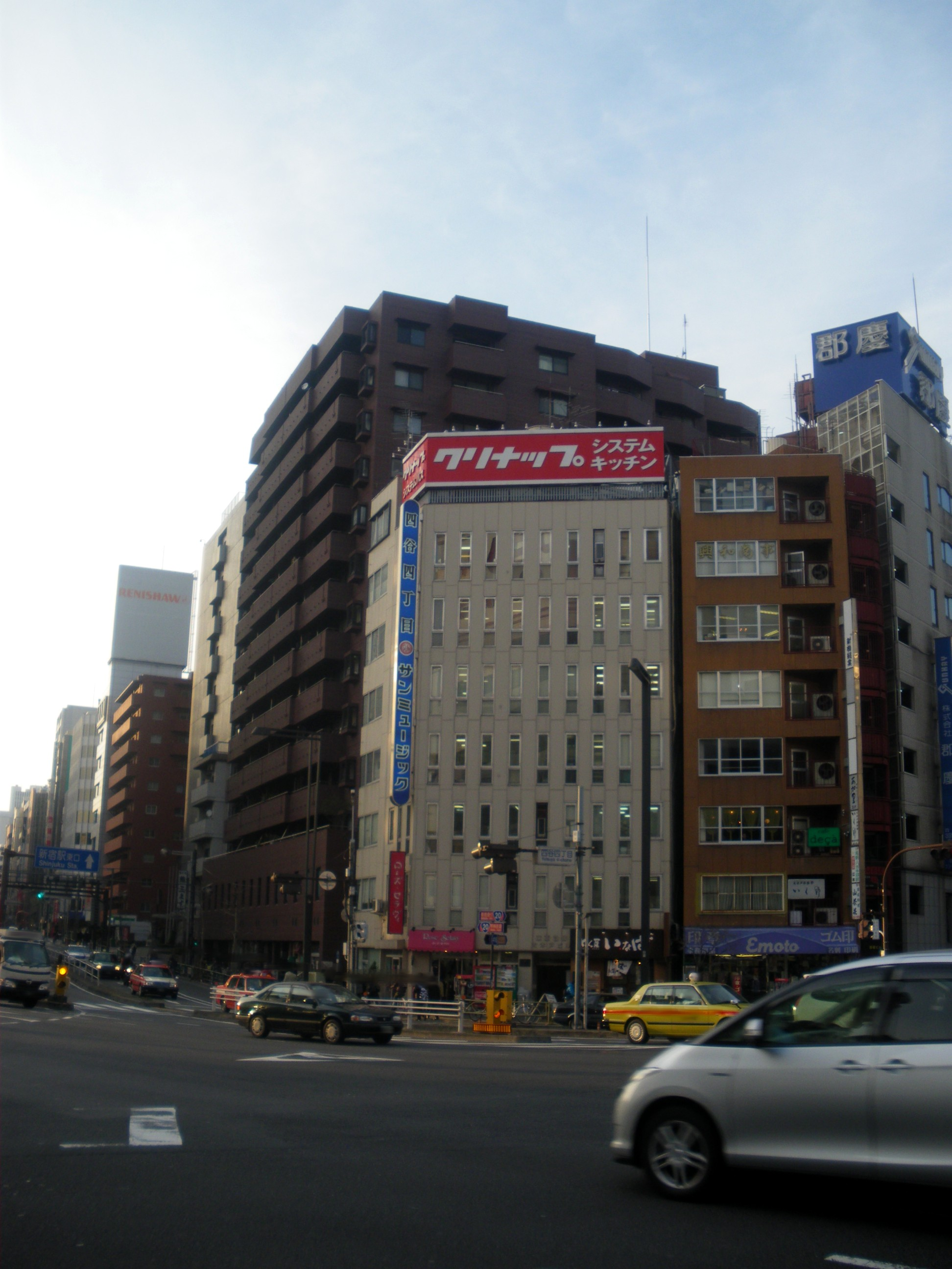 A photo of Sun Music Production head office,Yotsuya,Shinjuku-ku,Tokyo,Japan.It is located at Yotsuya 4-chome intersection.